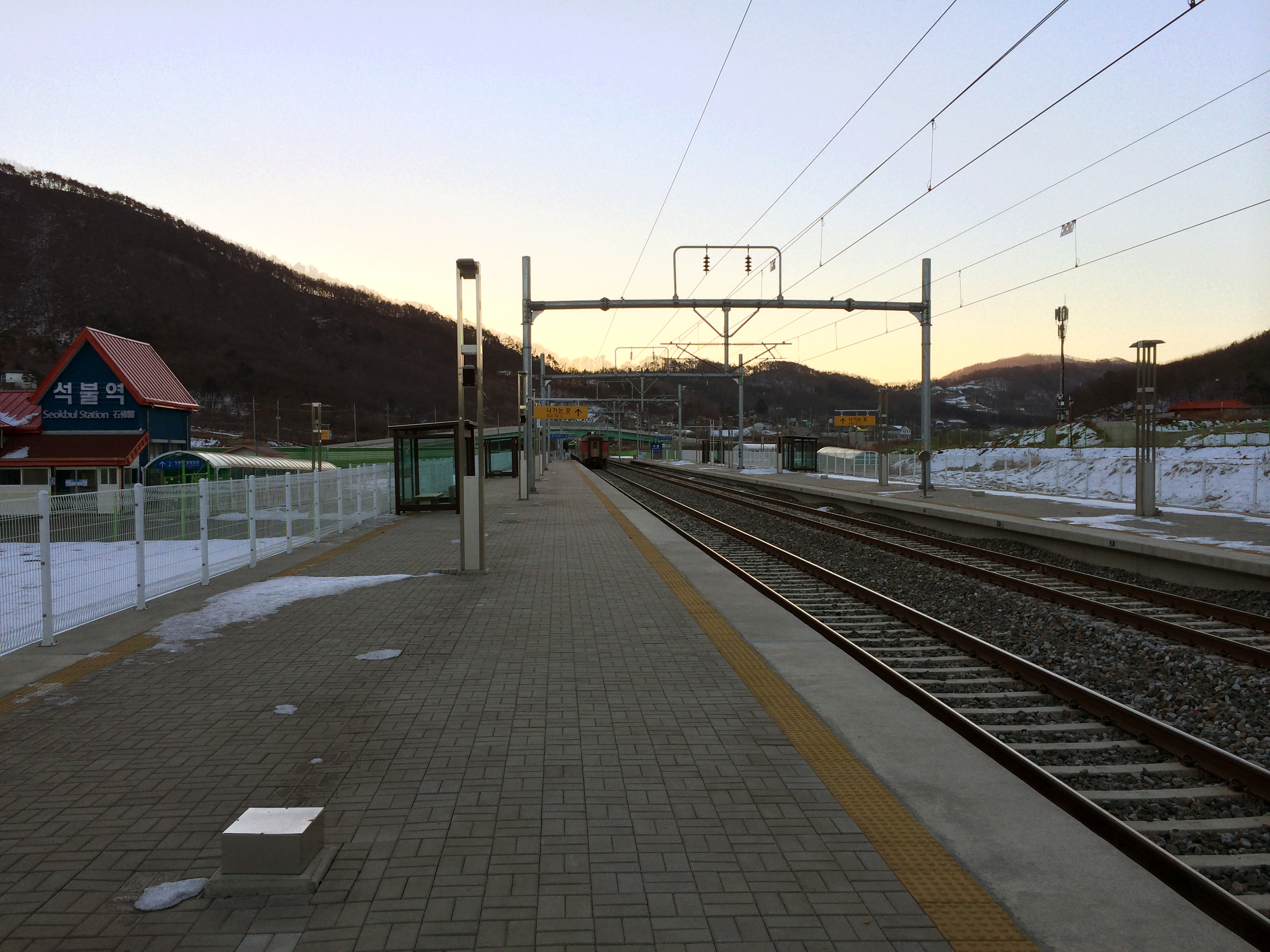 Platform of Seokbul Station